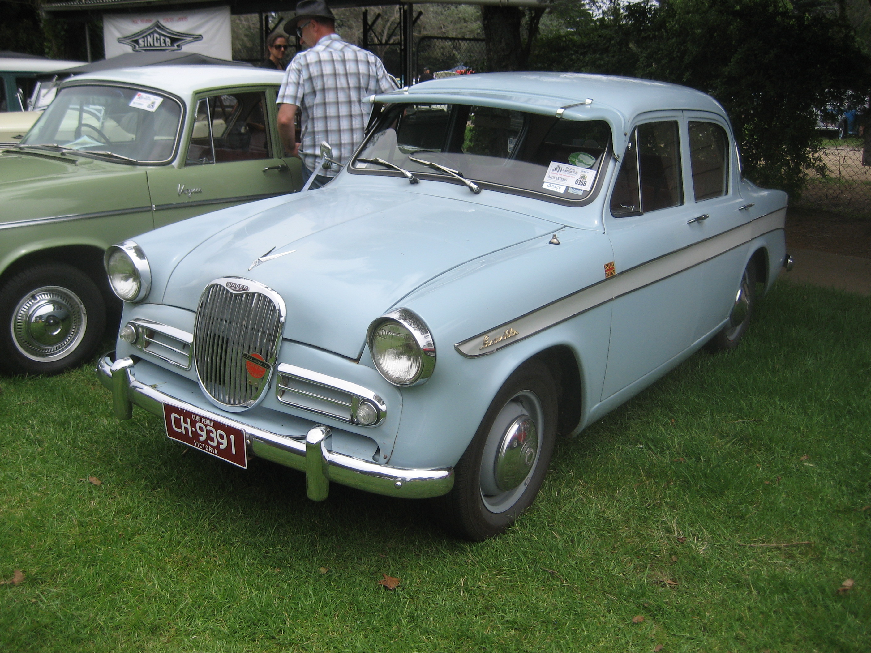 Similar to the Hillman Minx. Built from 1956-67, Series III from 1964-65. Engine; 1592cc 4 cyl